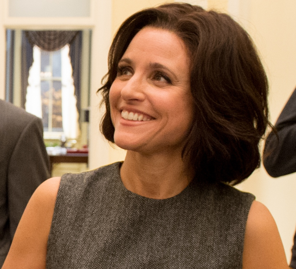 Julia Louis-Dreyfus